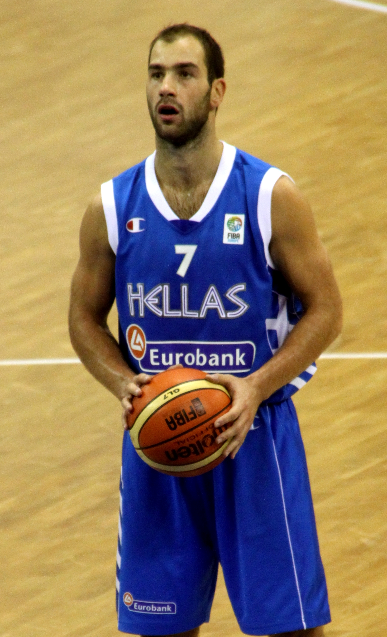 Vasileios Spanoulis ready for a free throw... [Israel 80-106 Greece, Eurobasket 2009, Poland] Israel 80-106 Greece